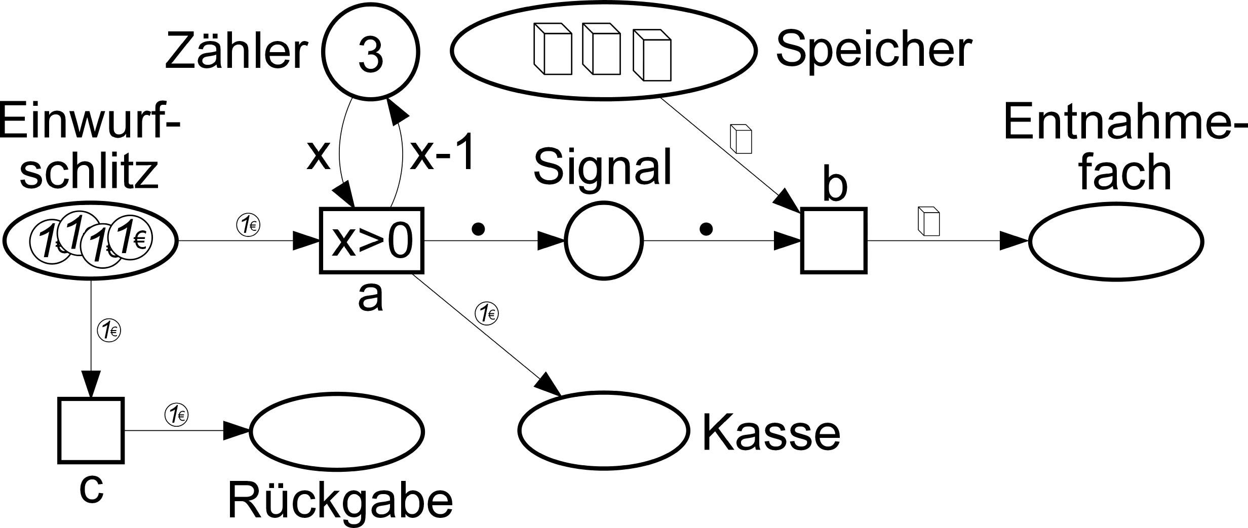 petri net example 6